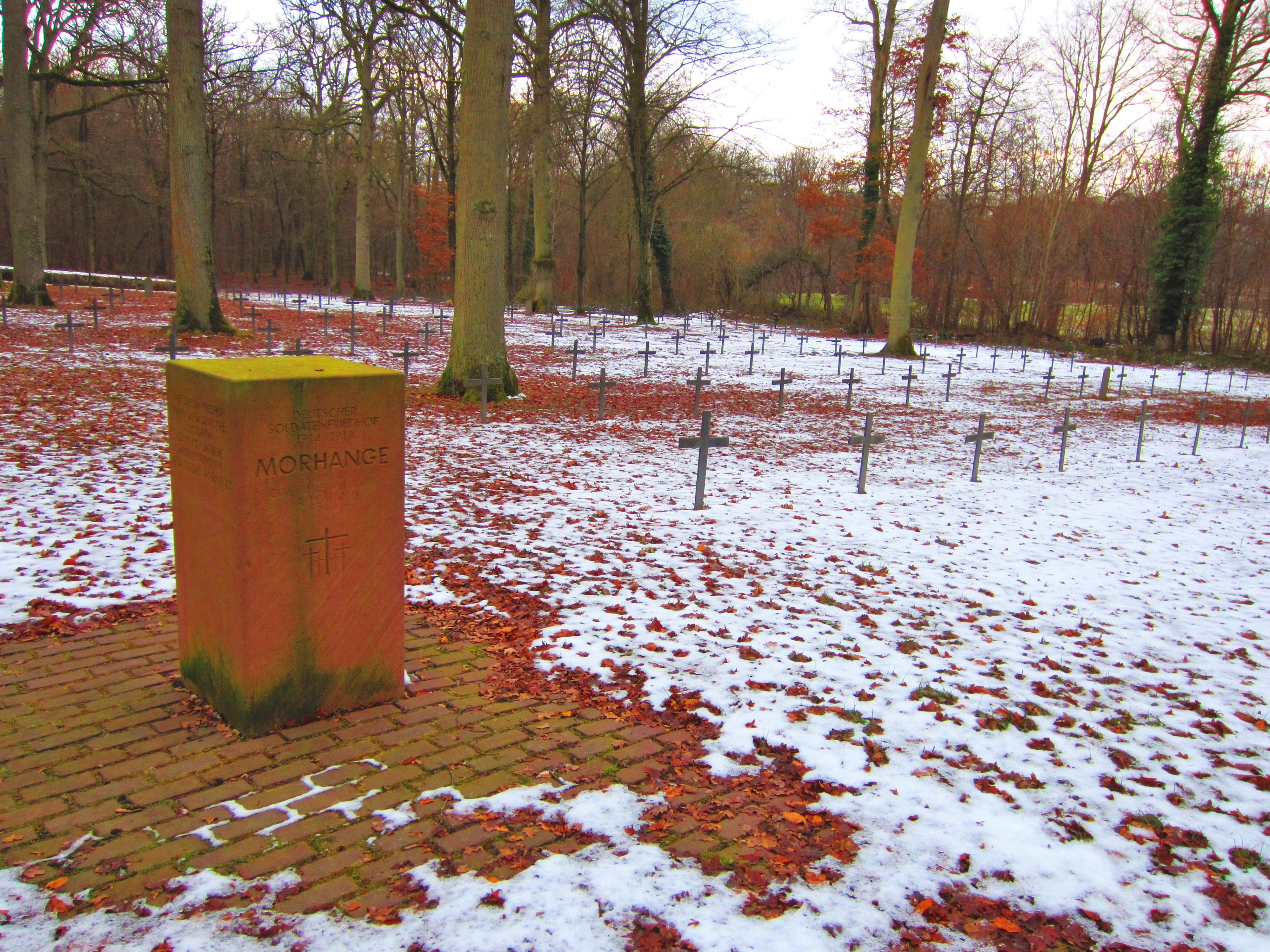 Morhange deutsch war cemetery